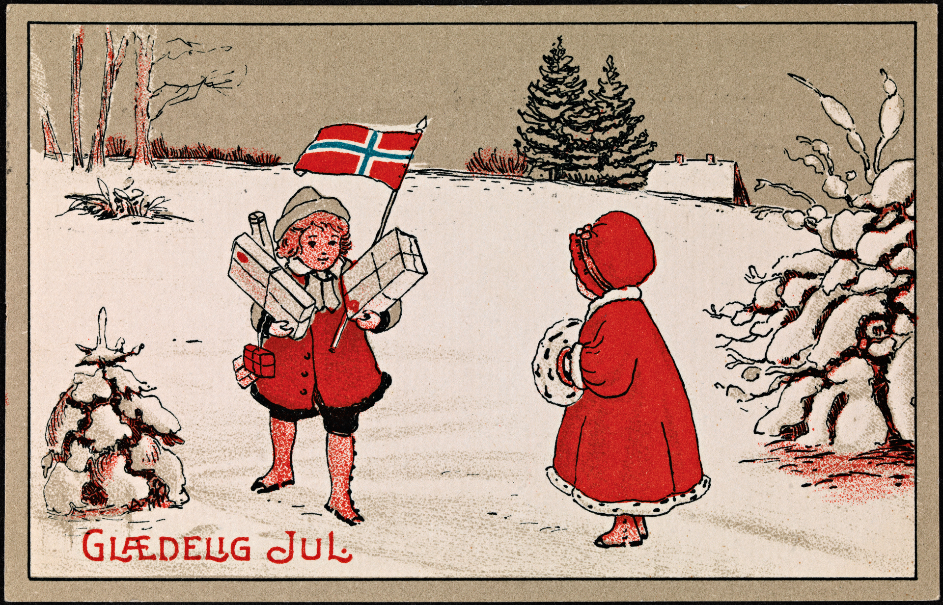 Tittel / Title: Glædelig Jul, ca 1919 Motiv / Motif: Postkort / julekort. Dato / Date: ca 1919 Kunstner / Artist: ukjent / unknown Utgiver / Publisher: ukjent / unknown Eier / Owner Institution: Nasjonalbiblioteket / National Library of Norway Lenke / Link: Bildesignatur / Image Number: blds_04542